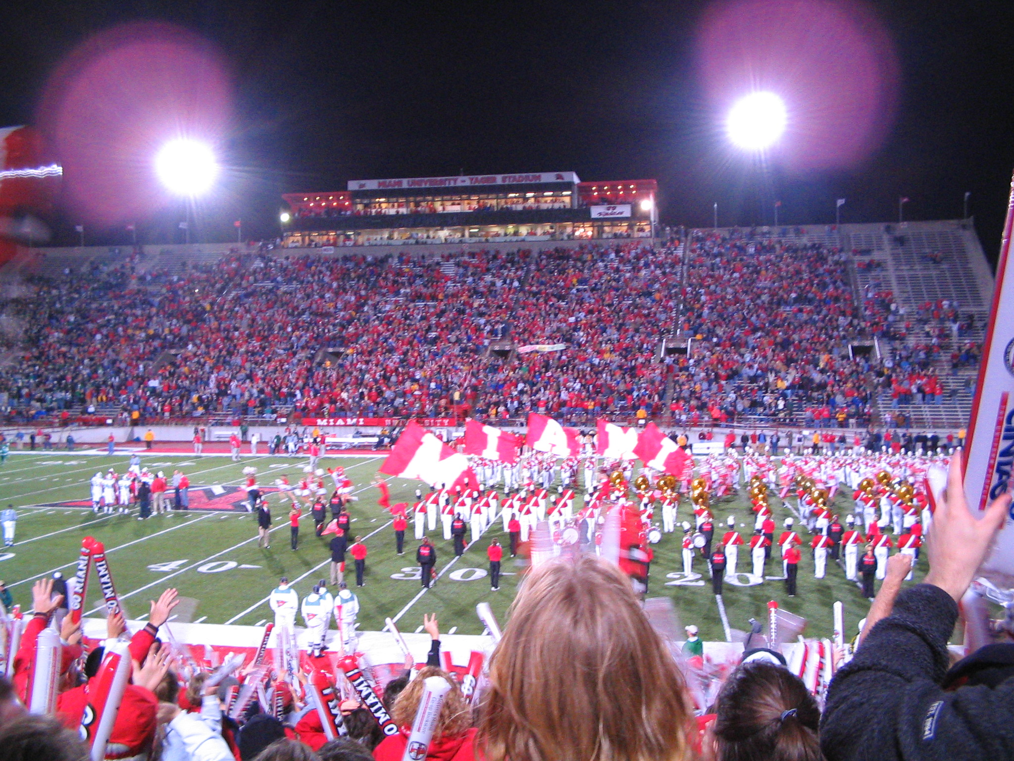 Football game at Miami University (Ohio)